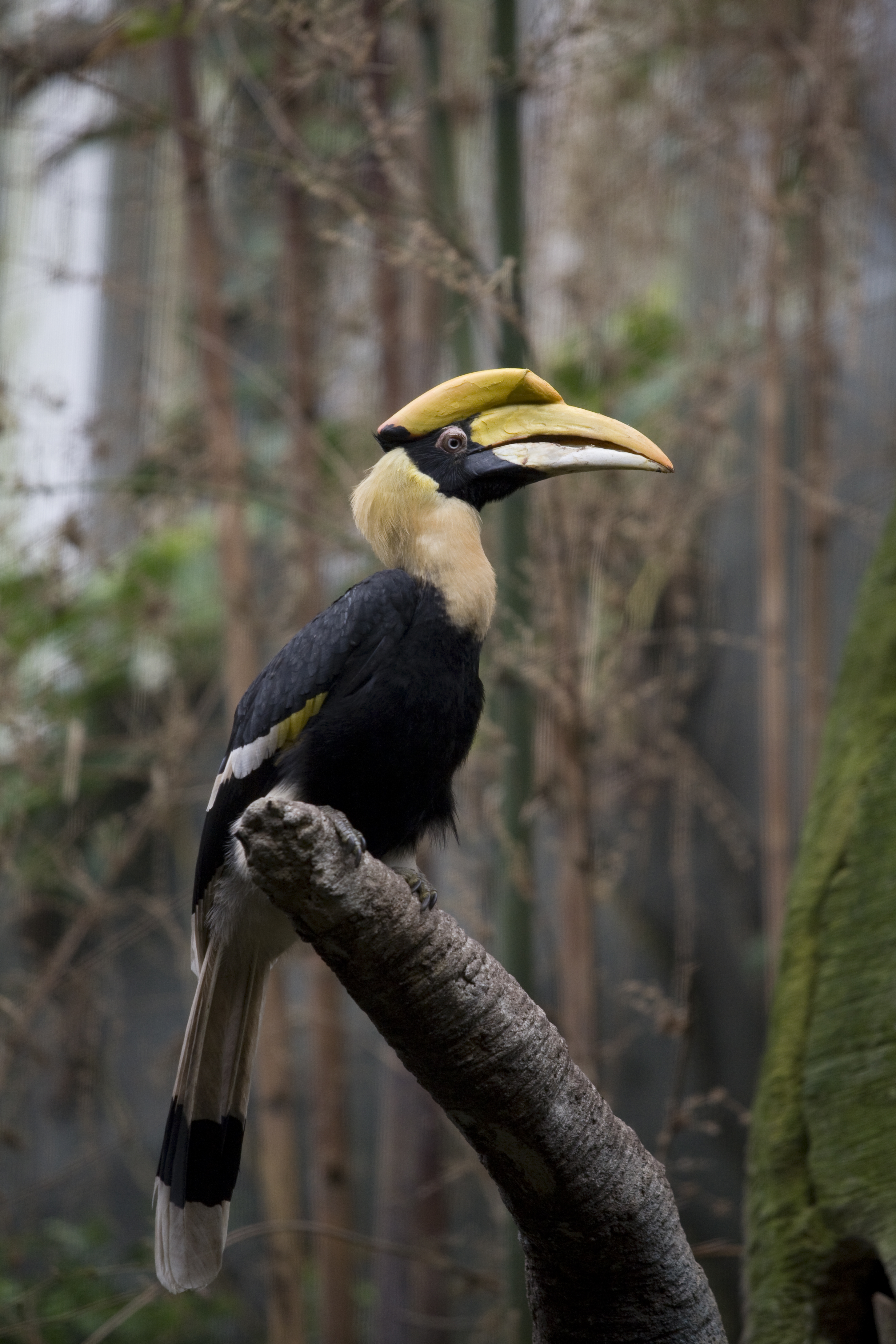 Great Hornbill (also known as Greater Indian Hornbill, Great Pied Hornbill and Two-horned Calao) at Köln Zoo, Germany.